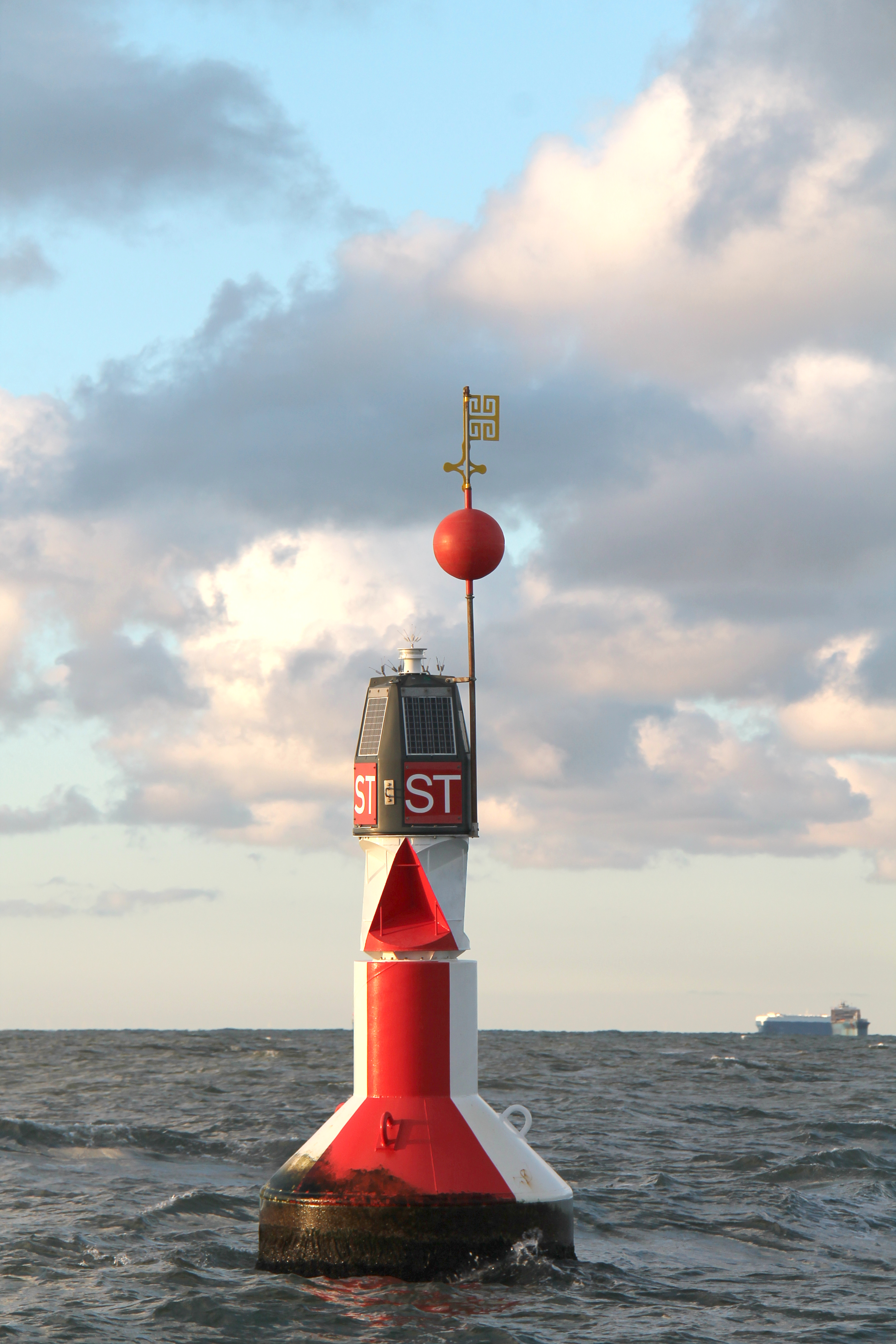 The Schlüsseltonne (key buoy, also known as Bremen buoy) is a safe water mark in the North Sea in position 53.9369667°N / 7.91575°E (time of shooting). The Schlüsseltonne was positioned for the first time in 1664 heading to the river Weser direction to Bremen. Therefore the top sign shows the key from the coat of arms of Bremen.